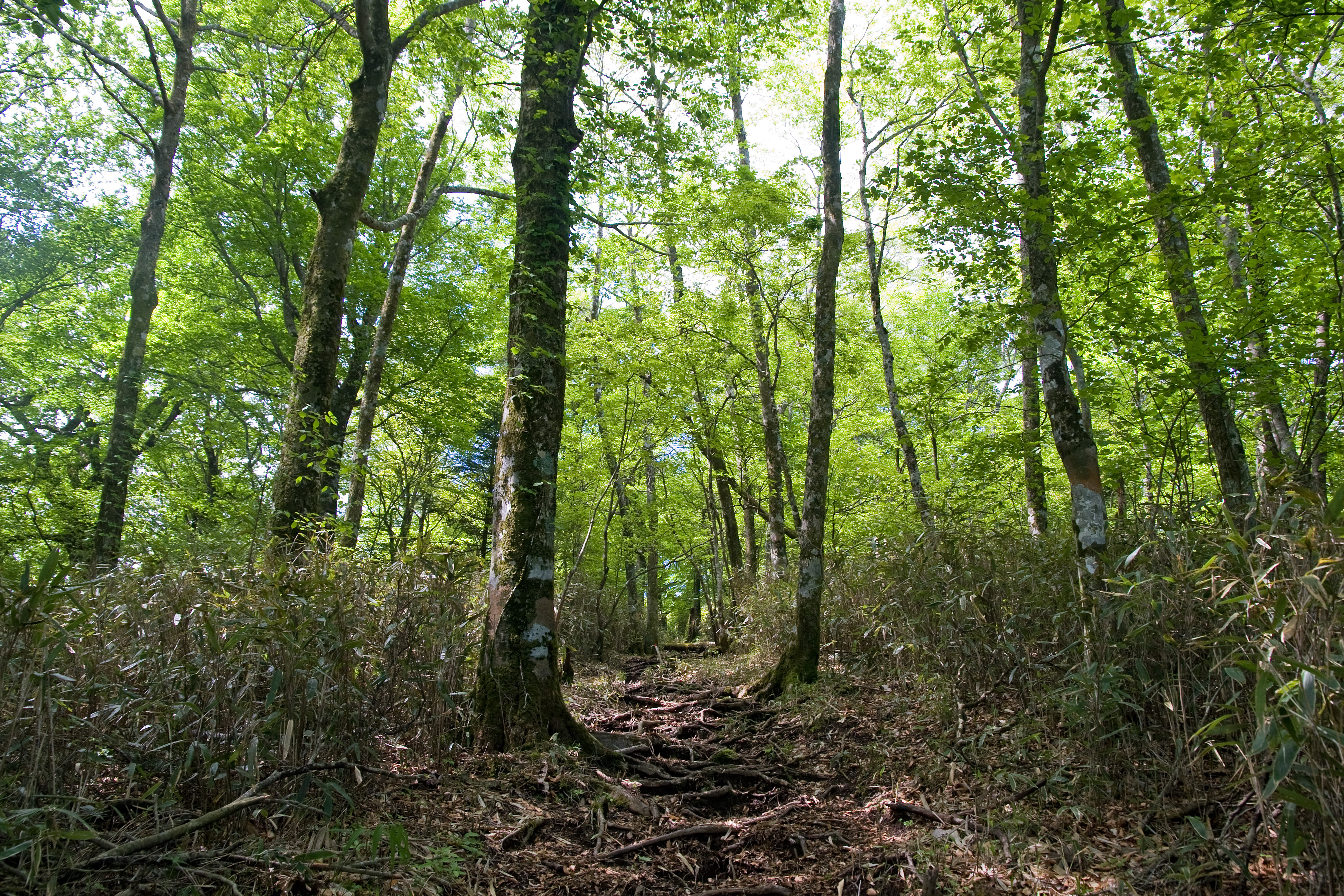 The forest in Mt.Komotsurushi, Tanzawa Mountains, Kanagawa Pref., Japan.